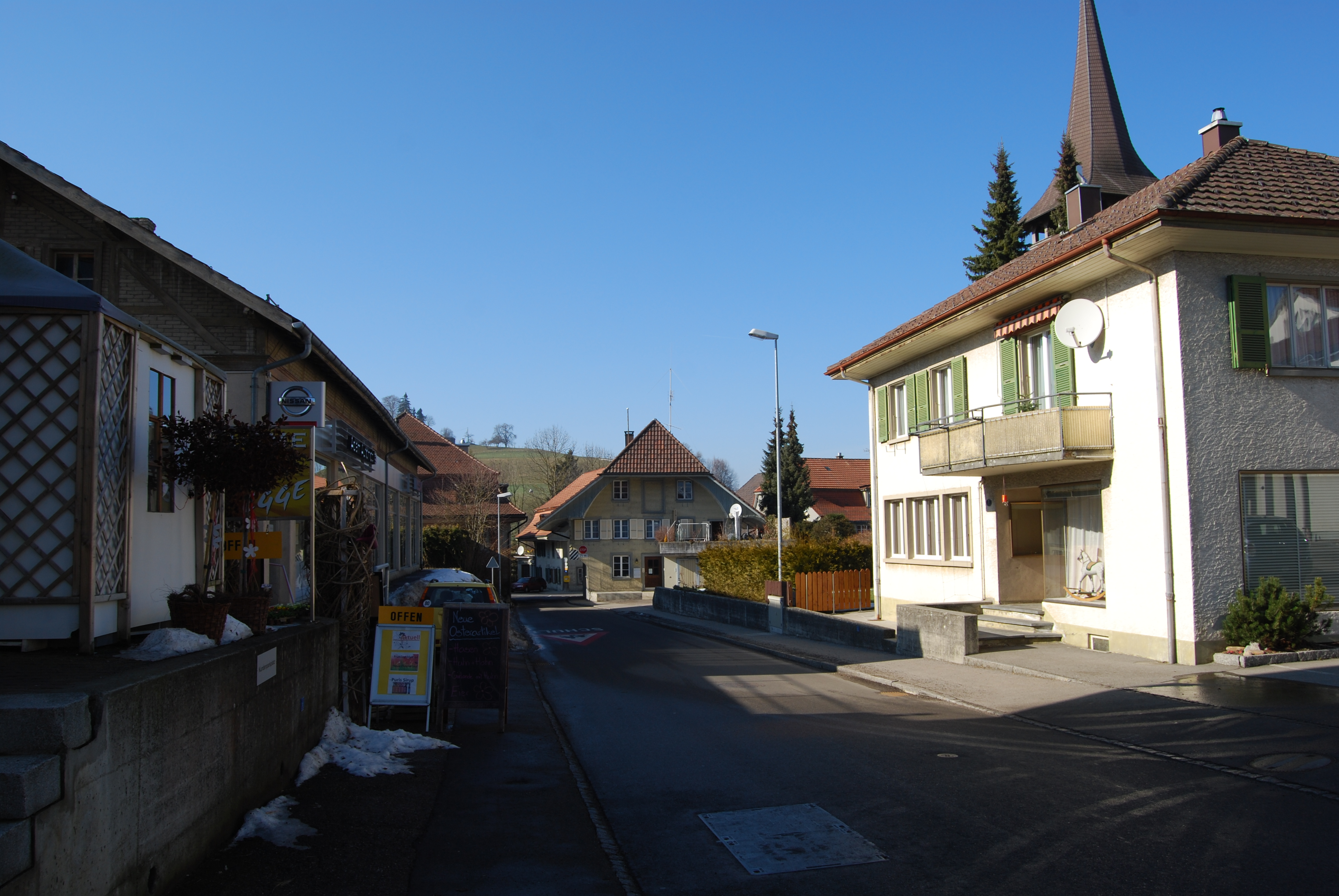 Eriswil, canton of Bern, SwitzerlandEsperanto: Eriswil, Kantono Berno, Svislando